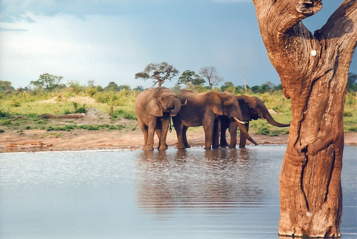 The boys down the water hole in Hwange National Park, Zimbabwe. Young male elephants hang around in bachelor herds like this. Taken Dec 1999 on film.